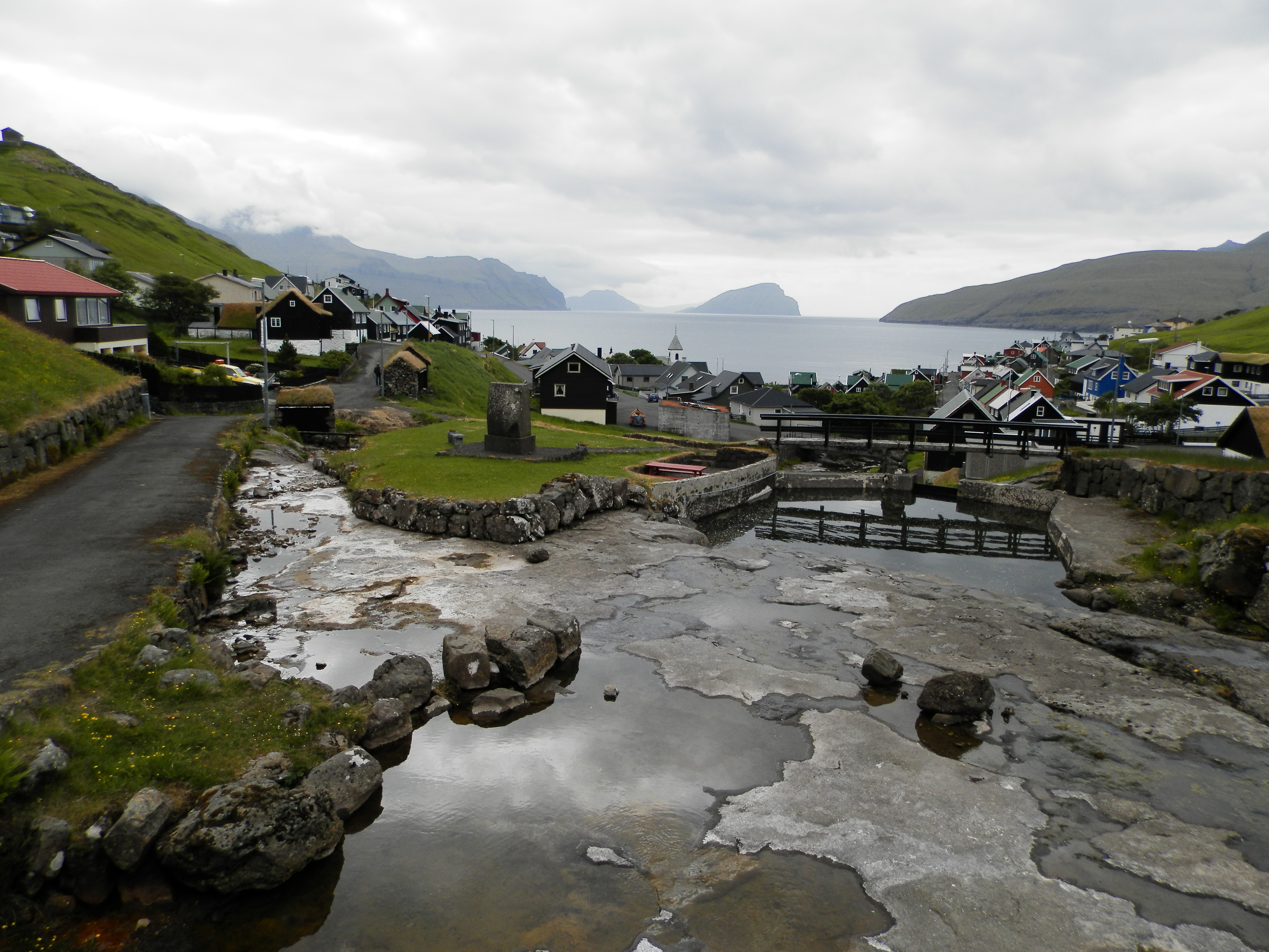 Kvívík is a village on the west coast of Streymoy, Faroe Islands.